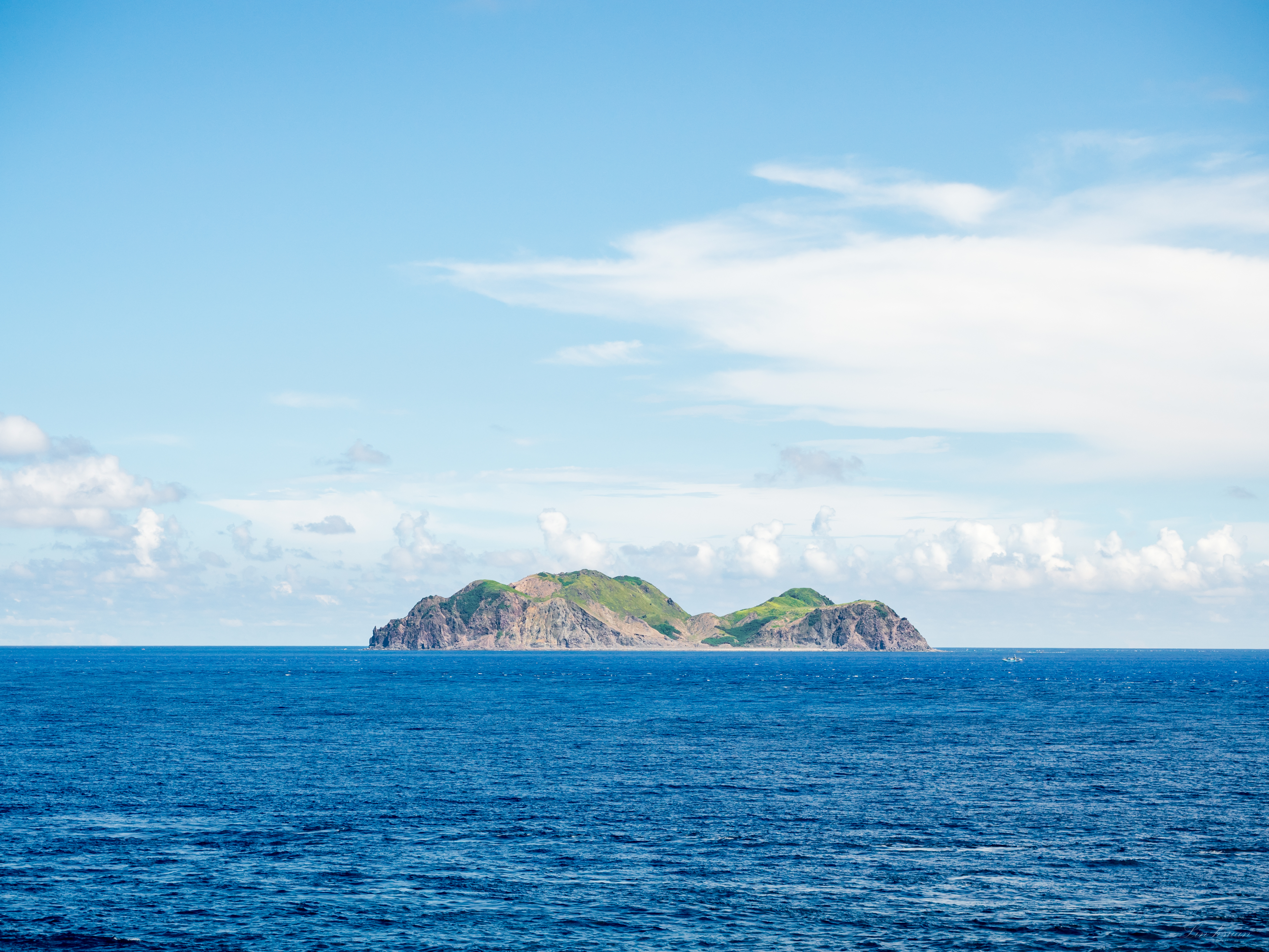 Lesser Orchid Island on a bright sunny day.